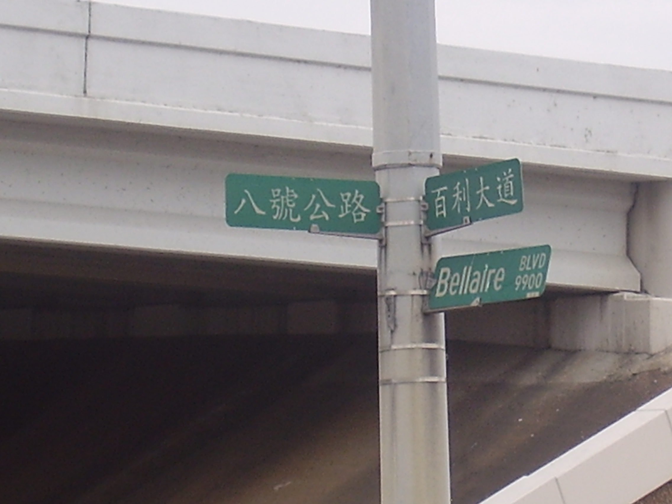 Sign of the intersection of Bellaire Boulevard (Chinese: 百利大道 Bǎilì Dàdào) and Beltway 8 (Chinese: 八號公路 Bāhào Gōnglù) in Chinatown